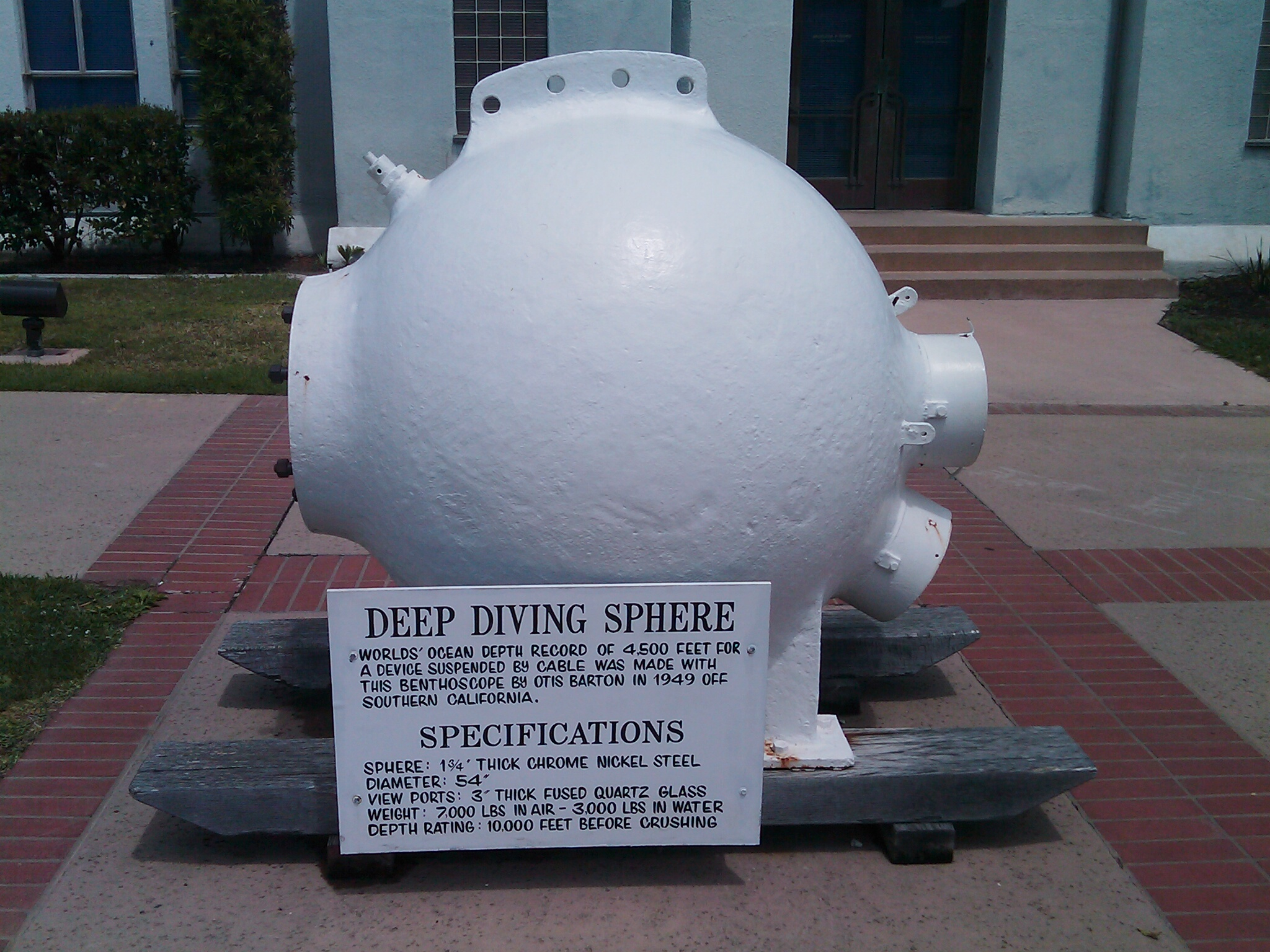 Otis Barton's Benthoscope in front of the Los Angeles Maritime Museum, June 28th, 2011